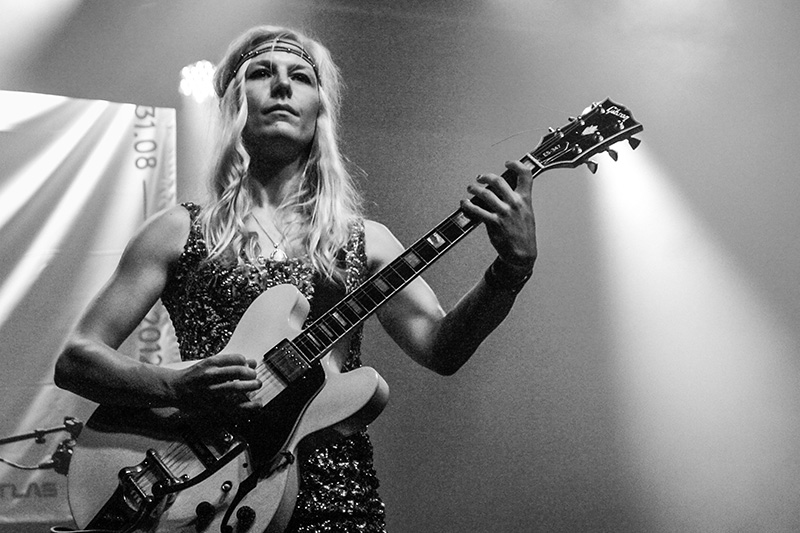 Hedvig Mollestad in Aarhus, Denmark 2012